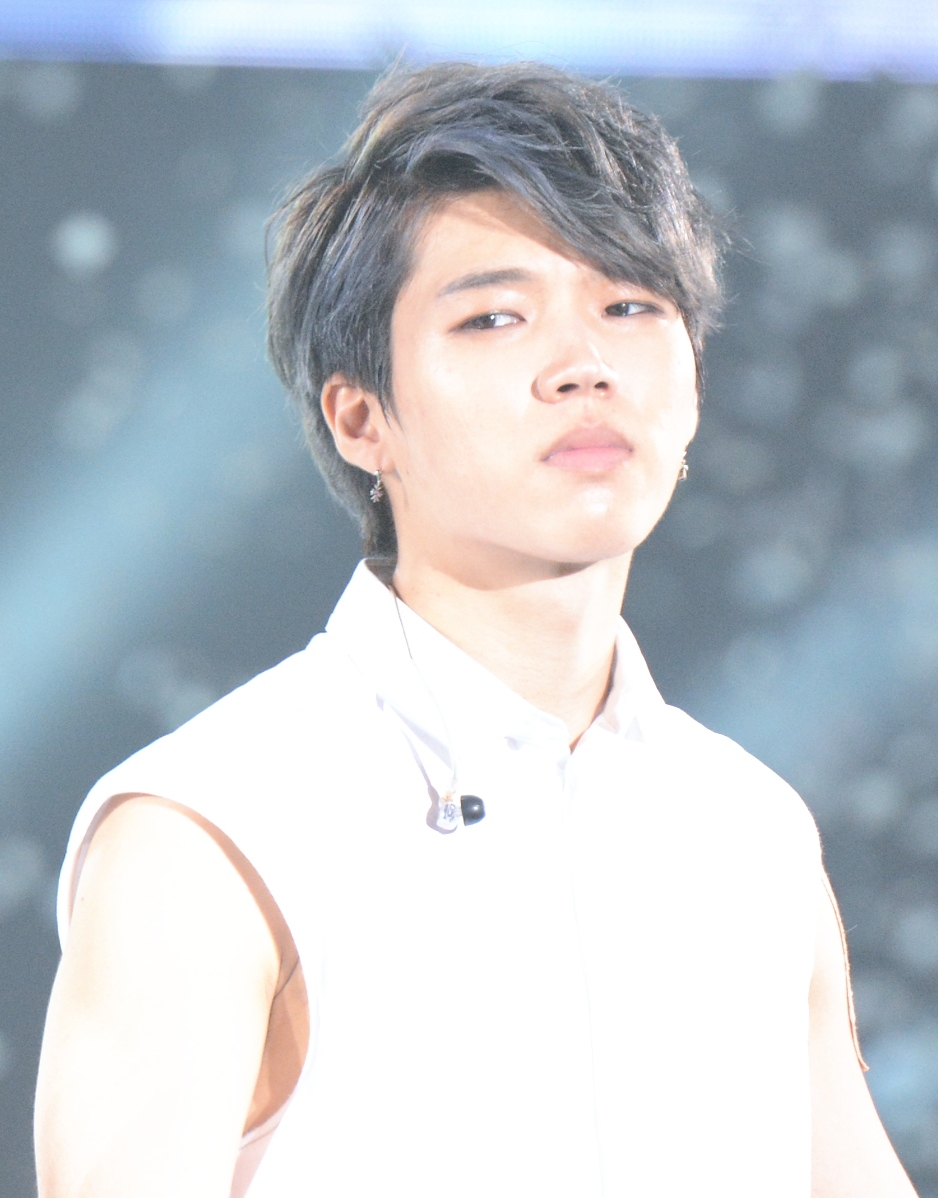 Woohyun at Dilemma Tour in Tokyo on February 22, 2015.